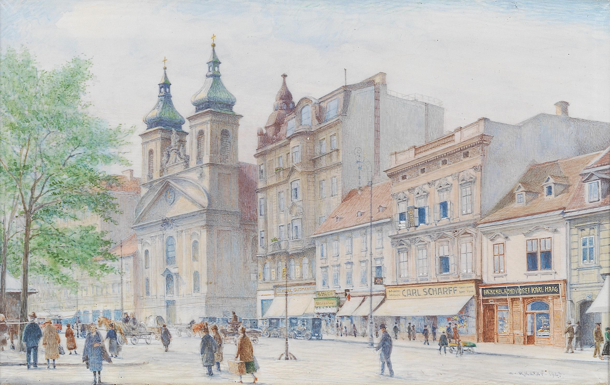 St. Rochus Church, 1030 Vienna